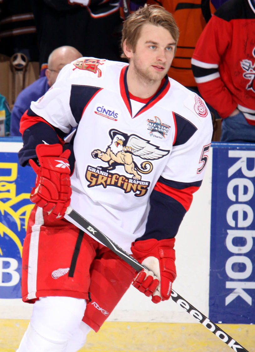 JustSports Photography/AHL